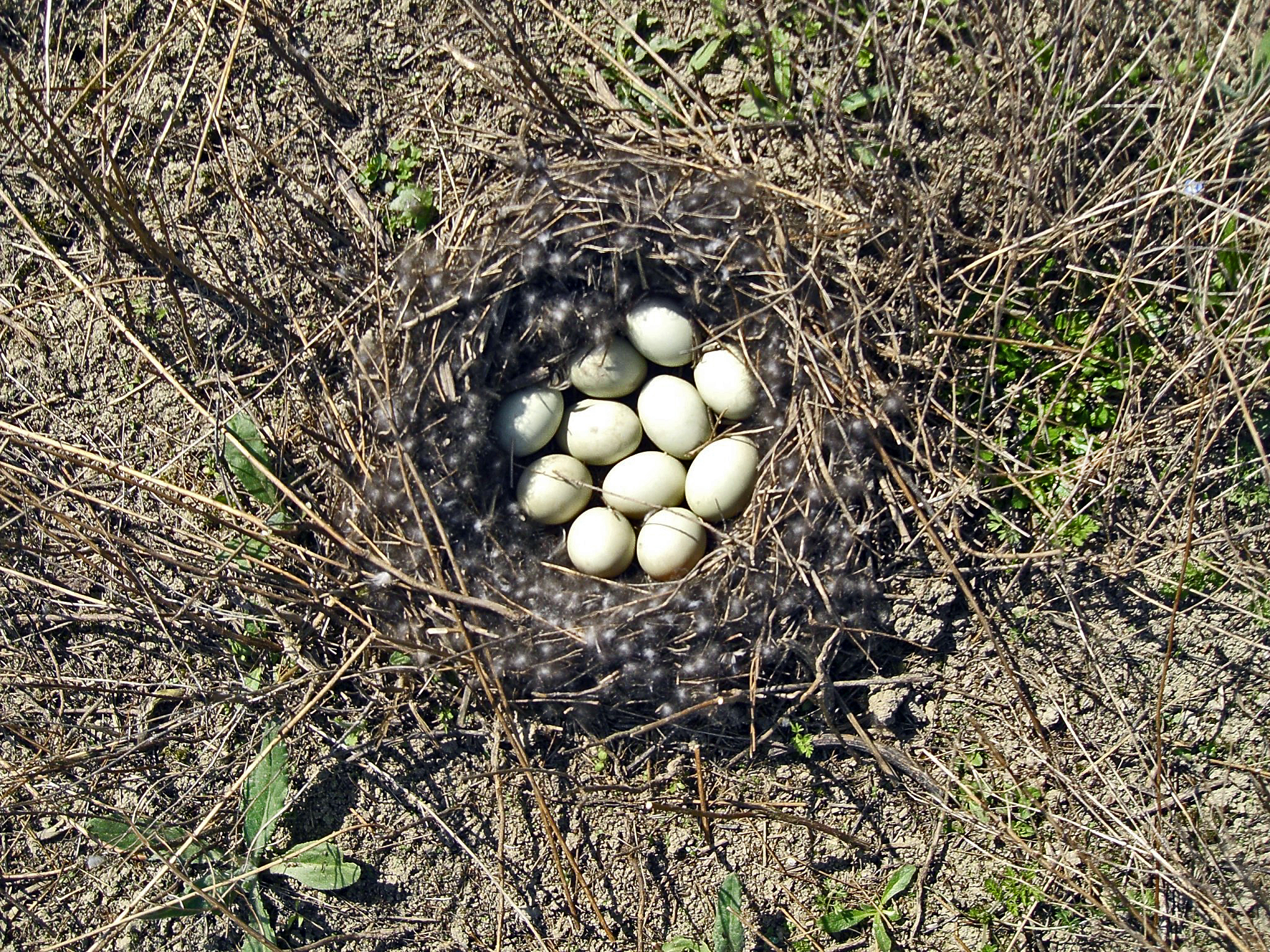 Description Nest of Mallard (Anas platyrhynchos). Date April 3, 2006 Location Vicomero Parma, Italy Photographer Pietro Minari